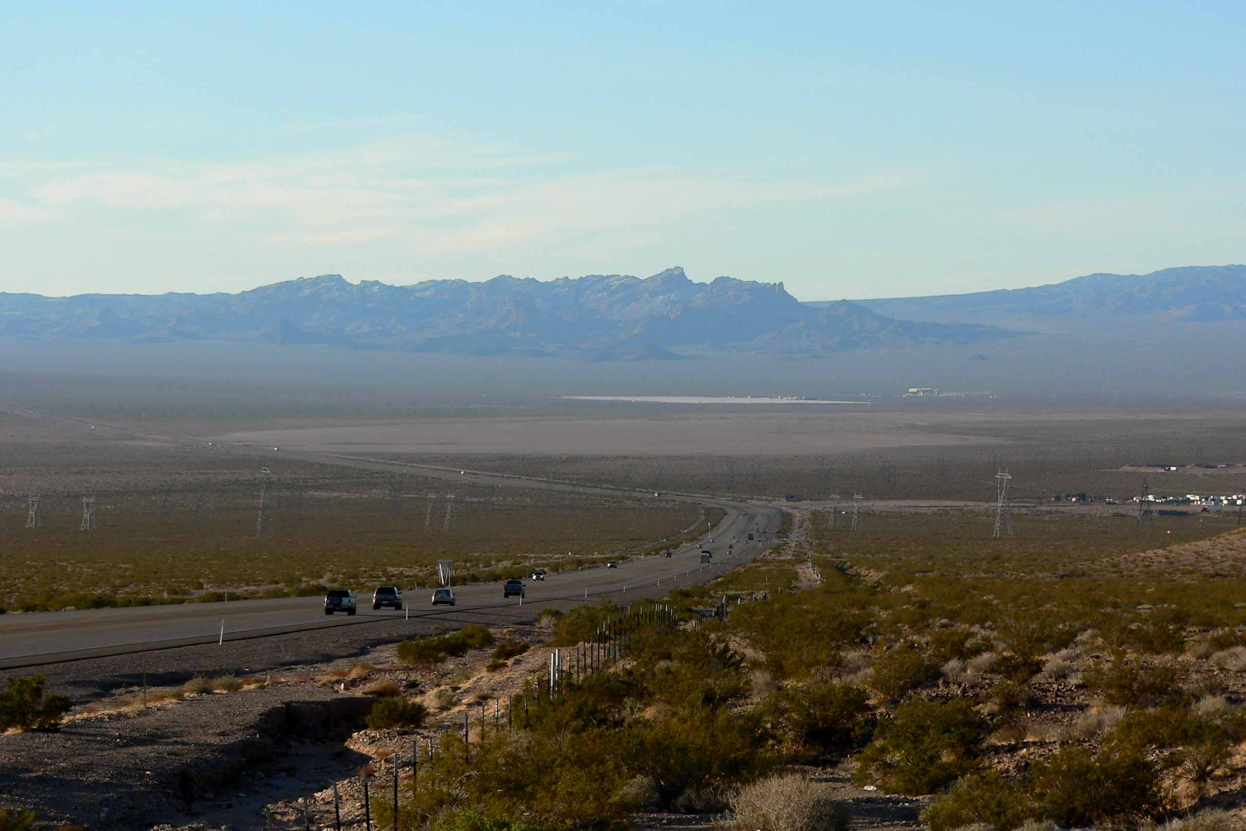 View looking south along US 95 in Eldorado Valley, southern Nevada